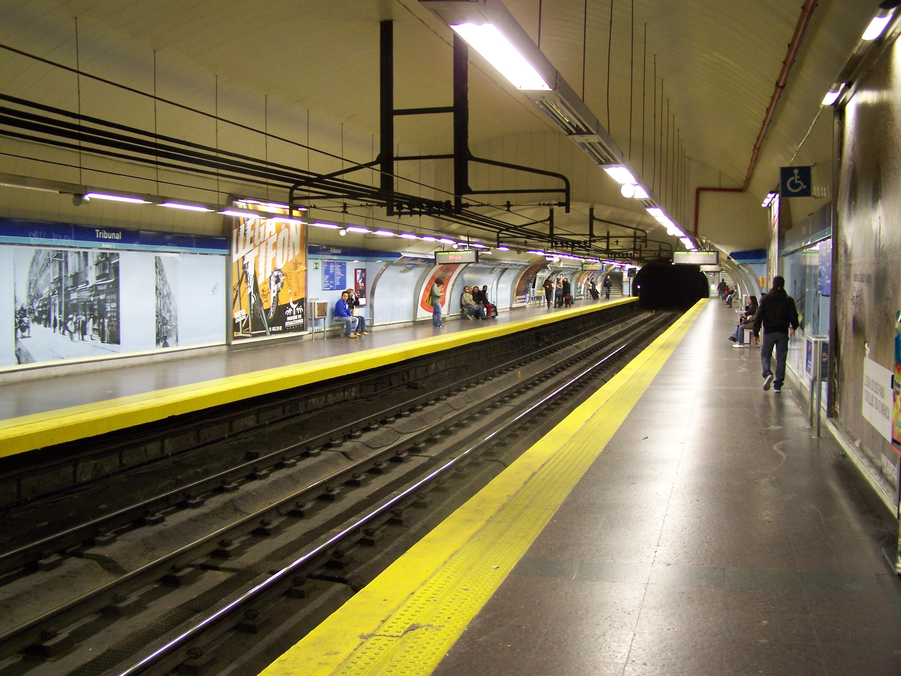 Interior of Estación de Tribunal in Madrid.